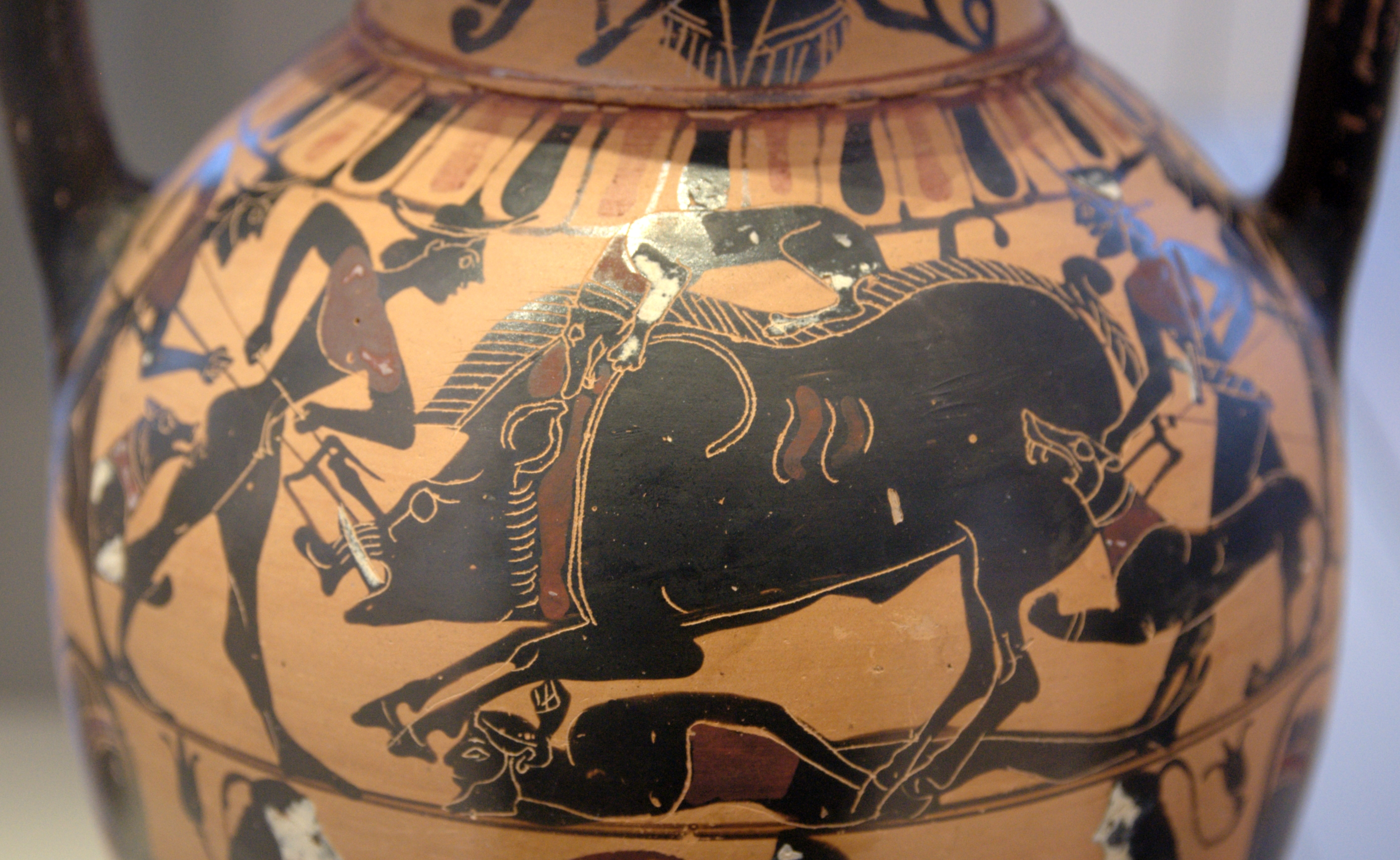 Hunt of the Calydonian Boar (?). Side A of an attic black-figure neck-amphora from South Etruria.